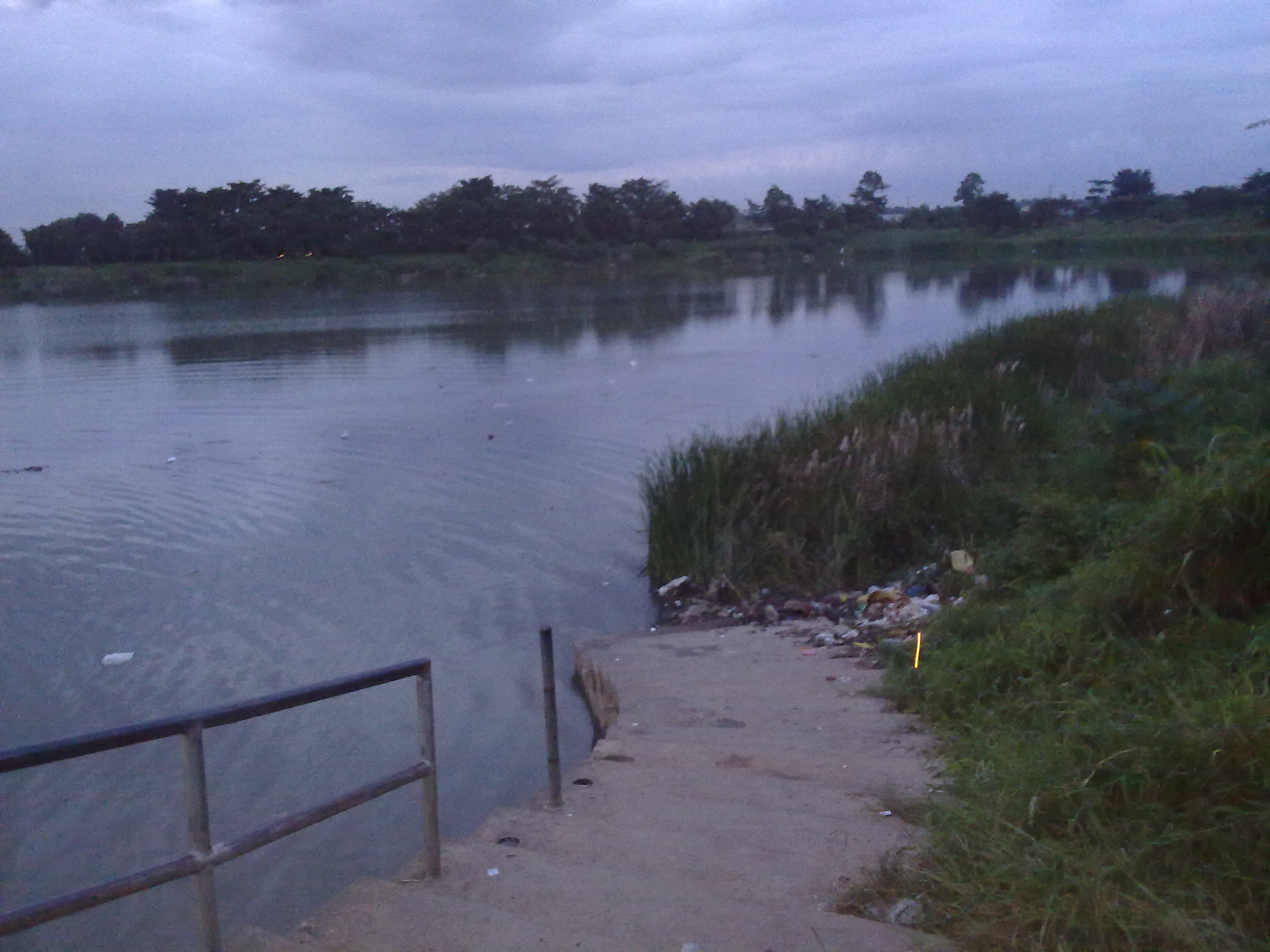 own own